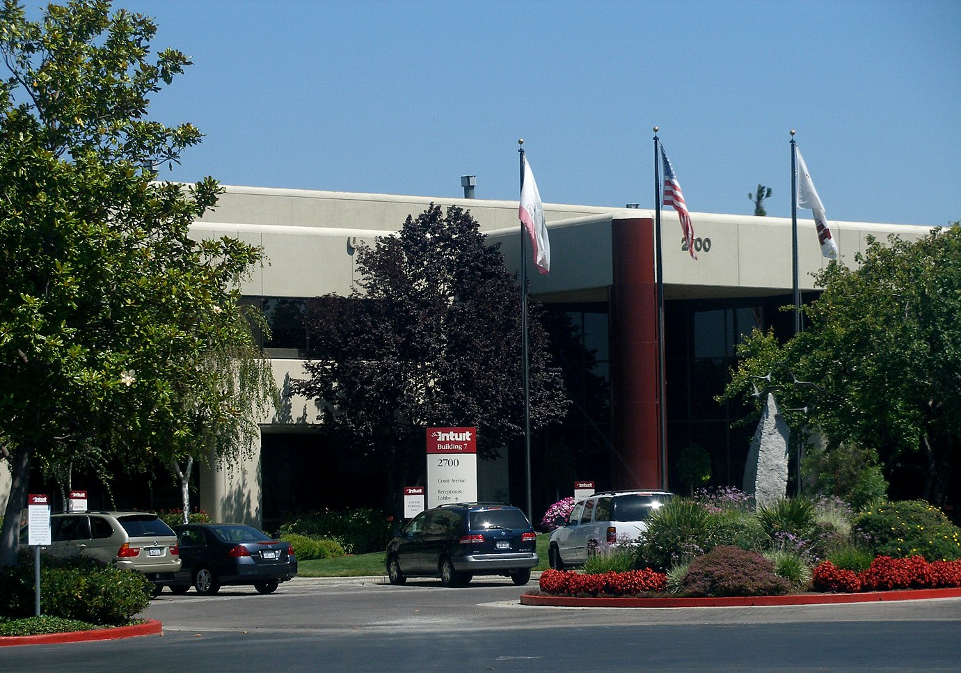 The headquarters of Intuit Inc. in Mountain View, California